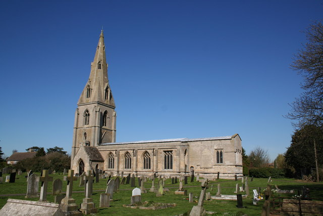 St.Peter's church, Threekingham. St.Peter's church on a sunny spring morning